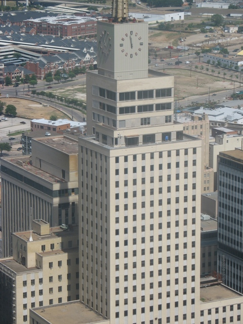 J Branden Helms, taken by myself from the Empire Room in nearby Elm Place.